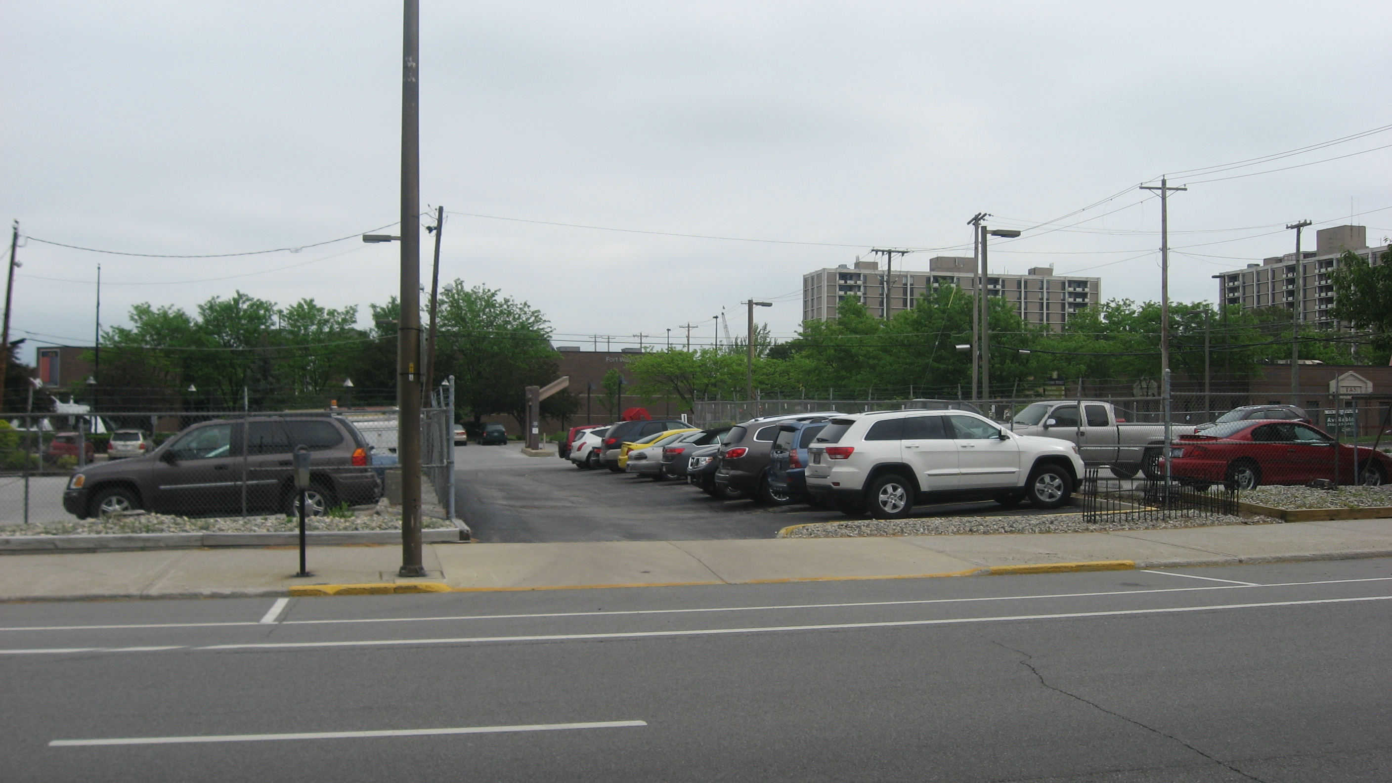 A parking lot on the northwestern corner of the intersection of Lafayette (U.S. Route 27) and Berry Streets in downtown Fort Wayne, Indiana, United States. This was once the site of the Christian G. Strunz House, which was listed on the National Register of Historic Places in 1979 and has not yet been removed despite its destruction.